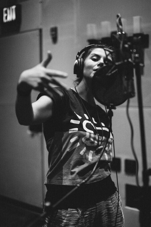 Salome MC recordings at Blue Planet Sounds in Honolulu, Hawaii/US